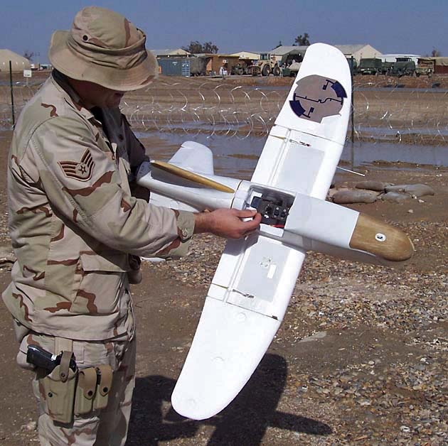 TALLIL AIR BASE, Iraq -- Staff Sgt. James Ellis adjusts the camera in a Desert Hawk here Jan. 26. The Desert Hawk is a miniature unmanned aerial vehicle used by security forces to see beyond base perimeters providing a rapid assessment of threats.